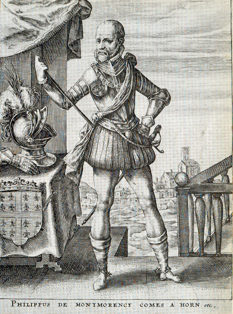 Philip de Montmorency, Count of Horn